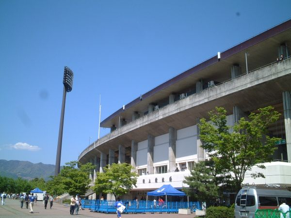 Main stand of Kose Sports Park Stadium at Kofu city, Yamanashi prefecture, Japan.